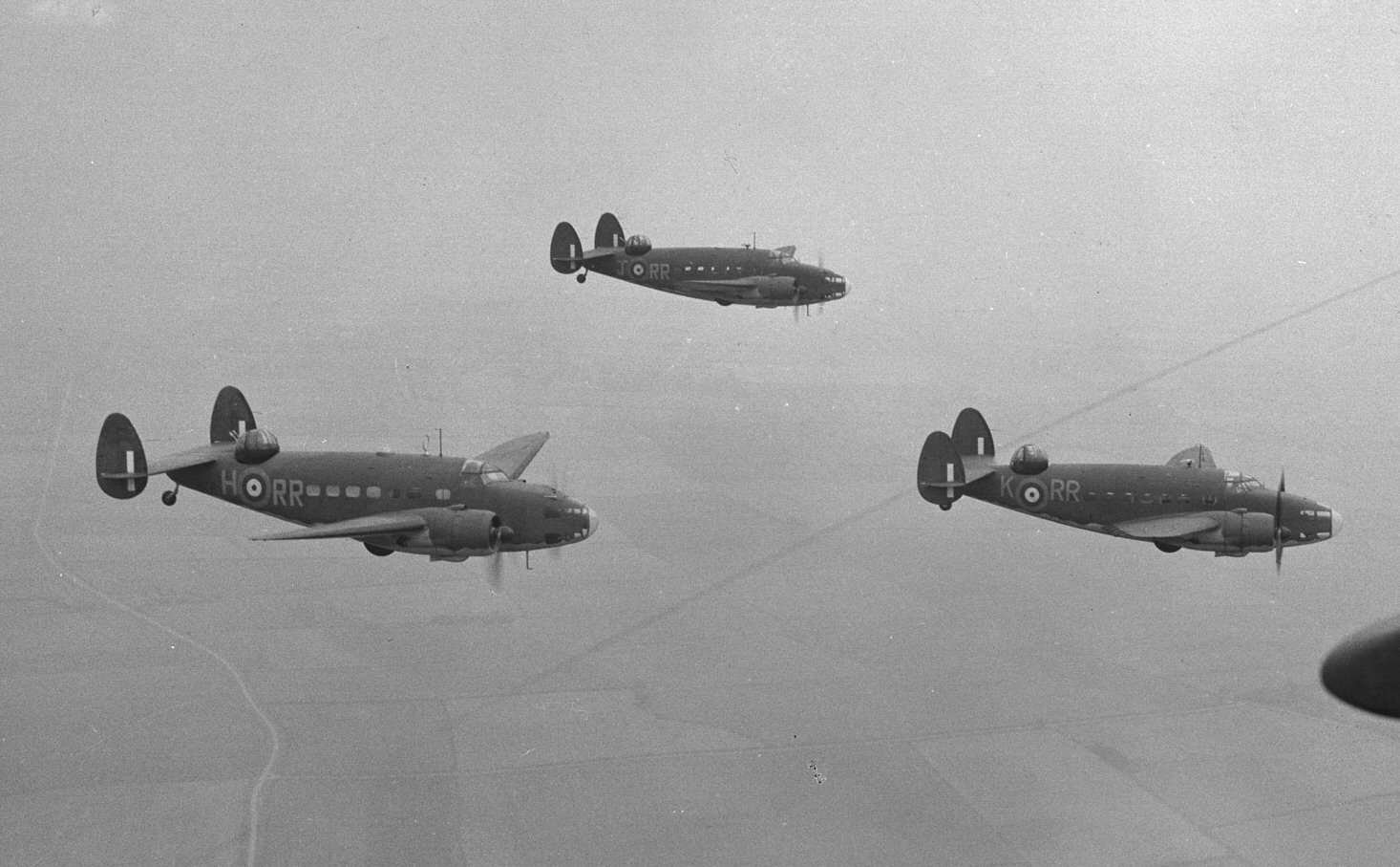 PL-4609 407 Sqn RCAF Lockheed Hudsons 1942